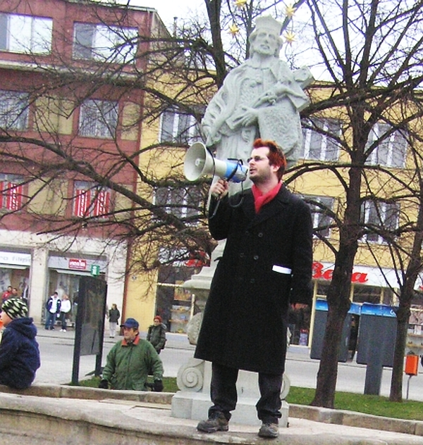 Ondřej Slačálek in Beroun 2007, západní strana Husova náměstí.